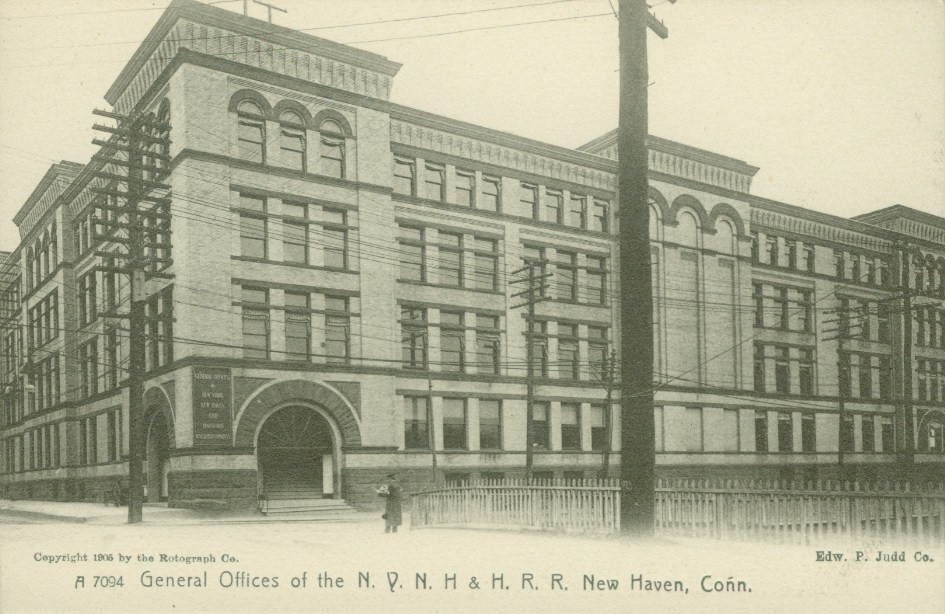 Postcard picture of General offices of the New York, New Haven & Hartford Railroad in New Haven, Connecticut; published by The Rotograph Co. of New York, New York; printed in Germany